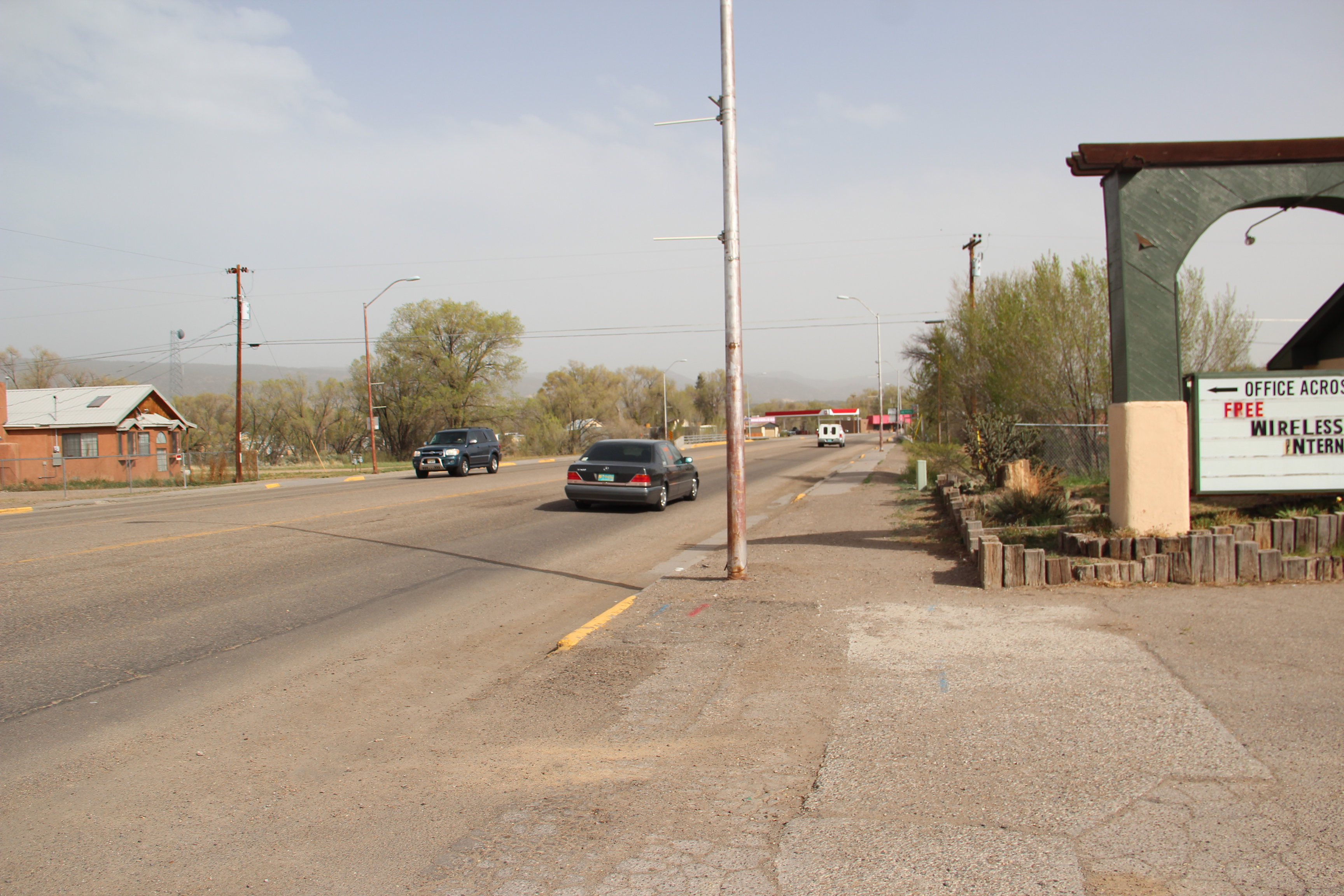 Cuba, New Mexico, 2014